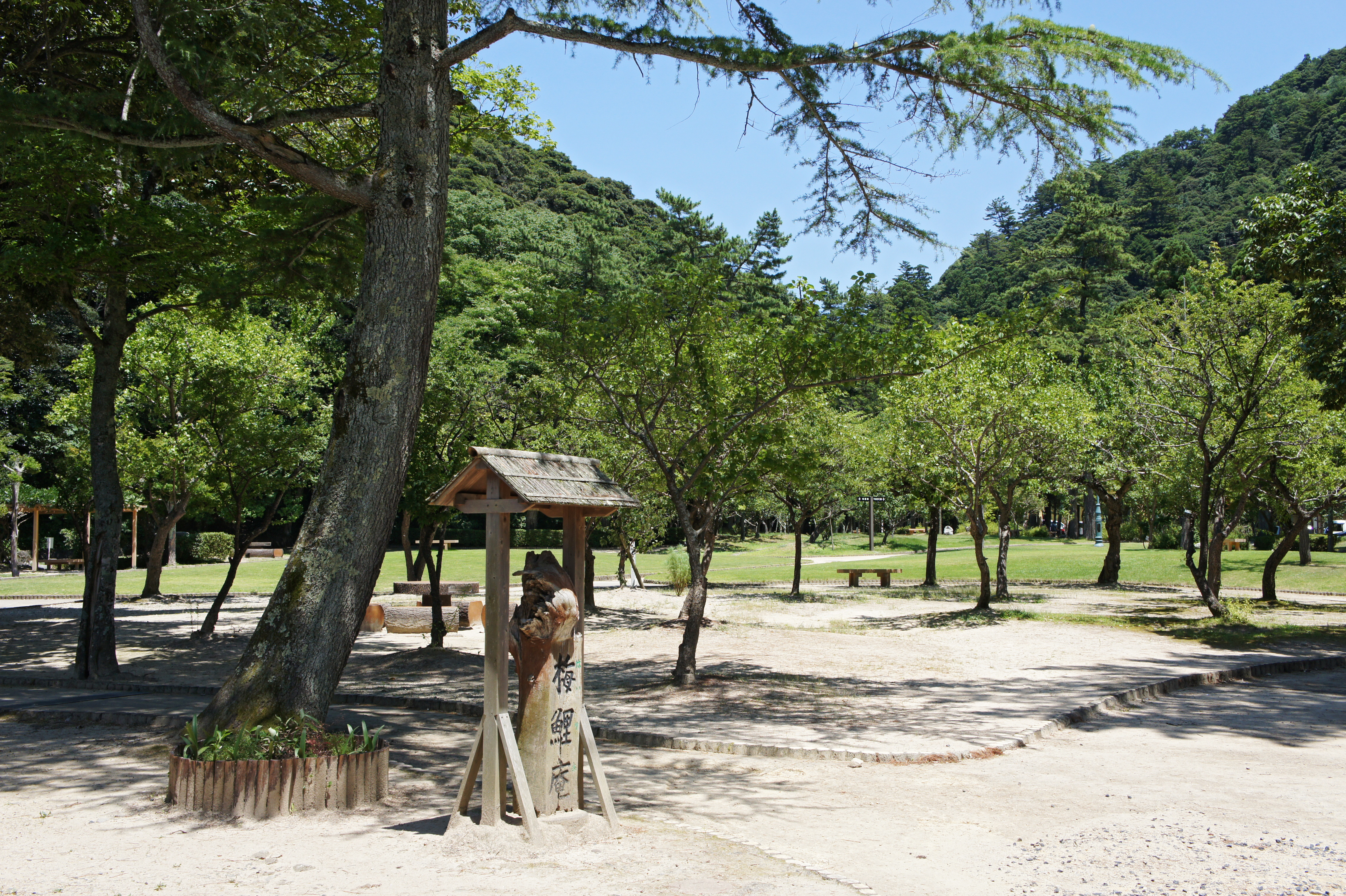 Oochidani Park in Tottori, Tottori prefecture, Japan.